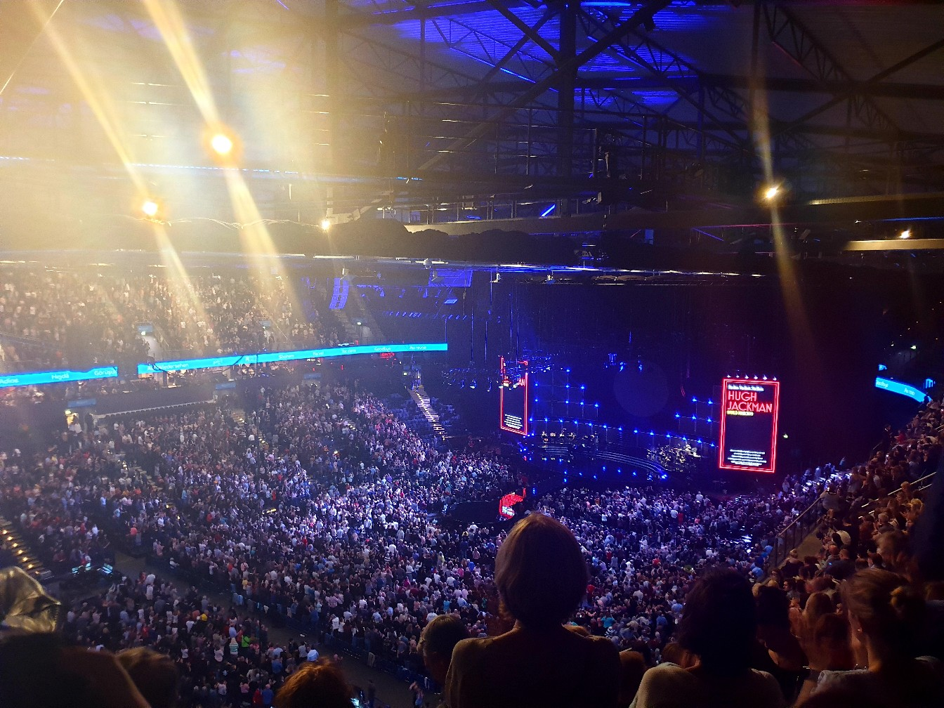 The European leg of "The Man. The Music. The Show." tour